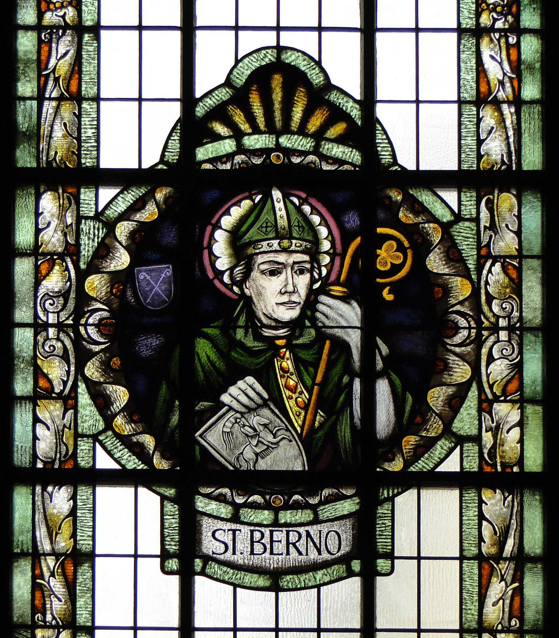 Stained glass window St. Berno of Church St. Anna in Schwerin, Mecklenburg-Vorpommern, Germany